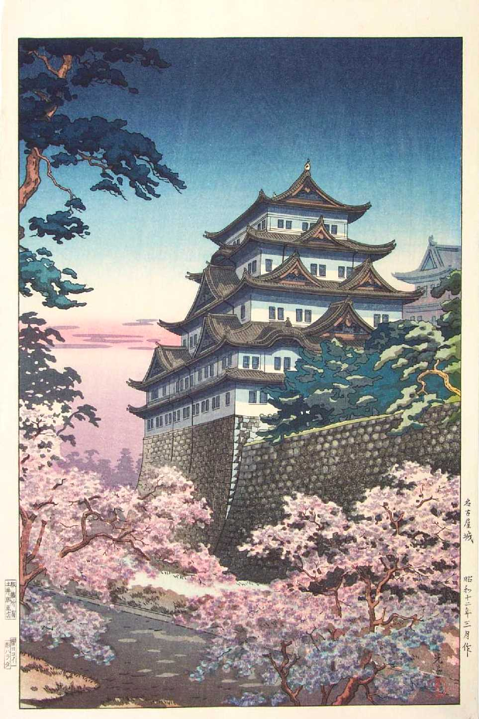 Nagoya Castle